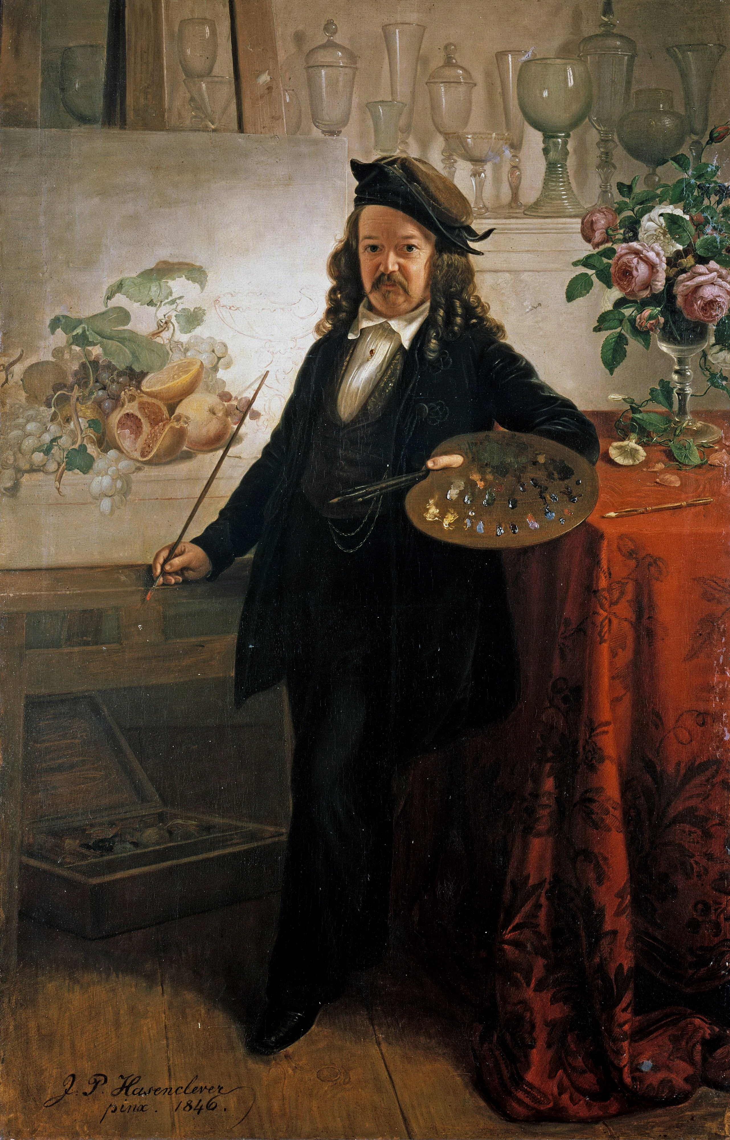 Depicted person: Johann Wilhelm Preyer (German still life painter)